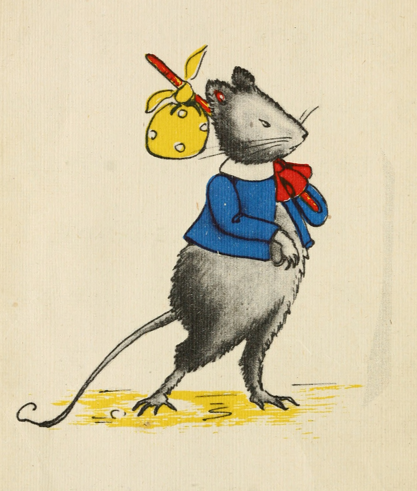 "Here he is...walking slowly down the road" in The Story of a Little Gray Mouse, by author and illustrator Dorothy Sherrill. (Number in parentheses refers to the DjVu location.)